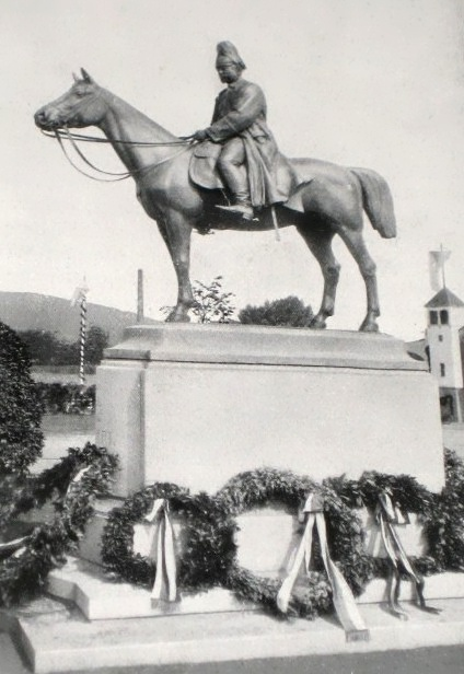 Equestrian monument for Albert of Saxony by Carl Seffner in Aue, Saxony, Germany